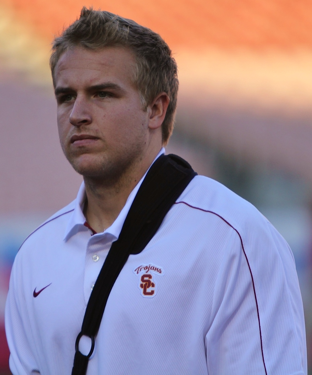 USC quarterback Matt Barkley before the 2012 game vs. Notre Dame.